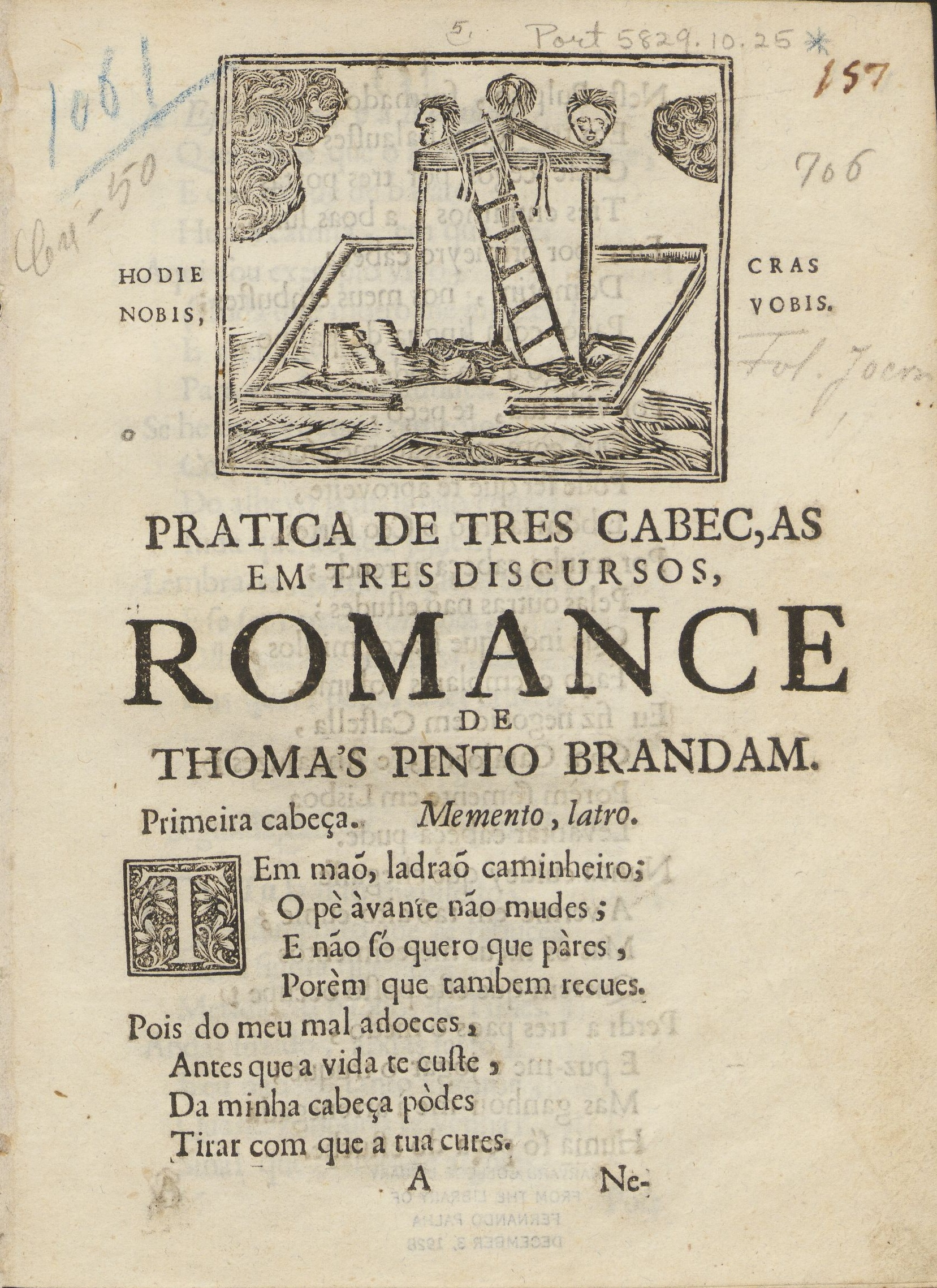 Title page: Pratica de tres cabeças em tres discursos, romance. Lisbon: 1729. By Thomaz Pinto Brandão (1664-1743). Port 5829.10.25 - Brandão, 1729, Houghton Library, Harvard University